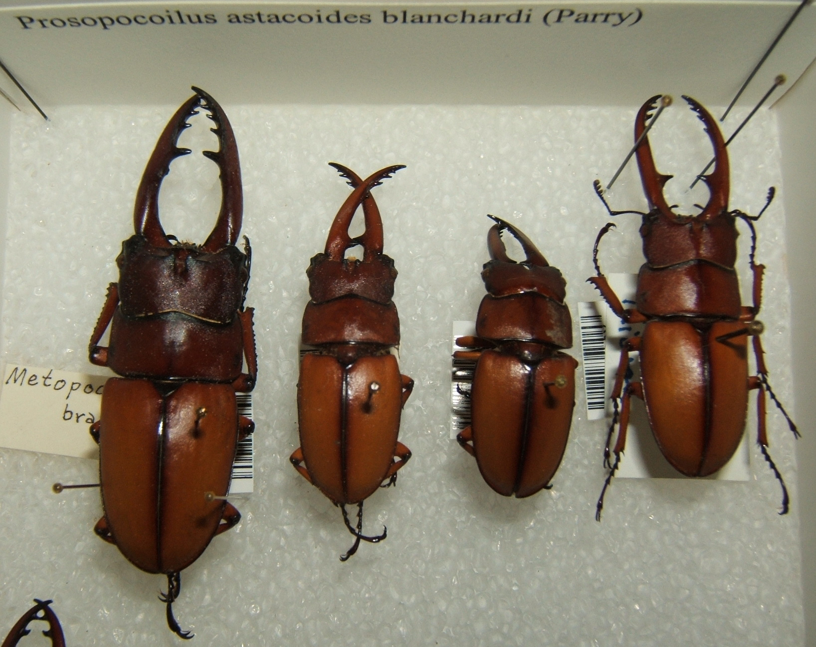 Prosopocoilus astacoides blanchardi adult taken by Shawn Hanrahan at the Texas A&M University Insect Collection in College Station, Texas.